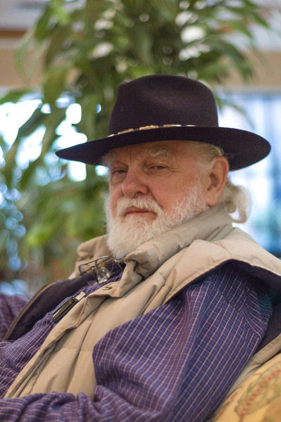 Spring, 2006